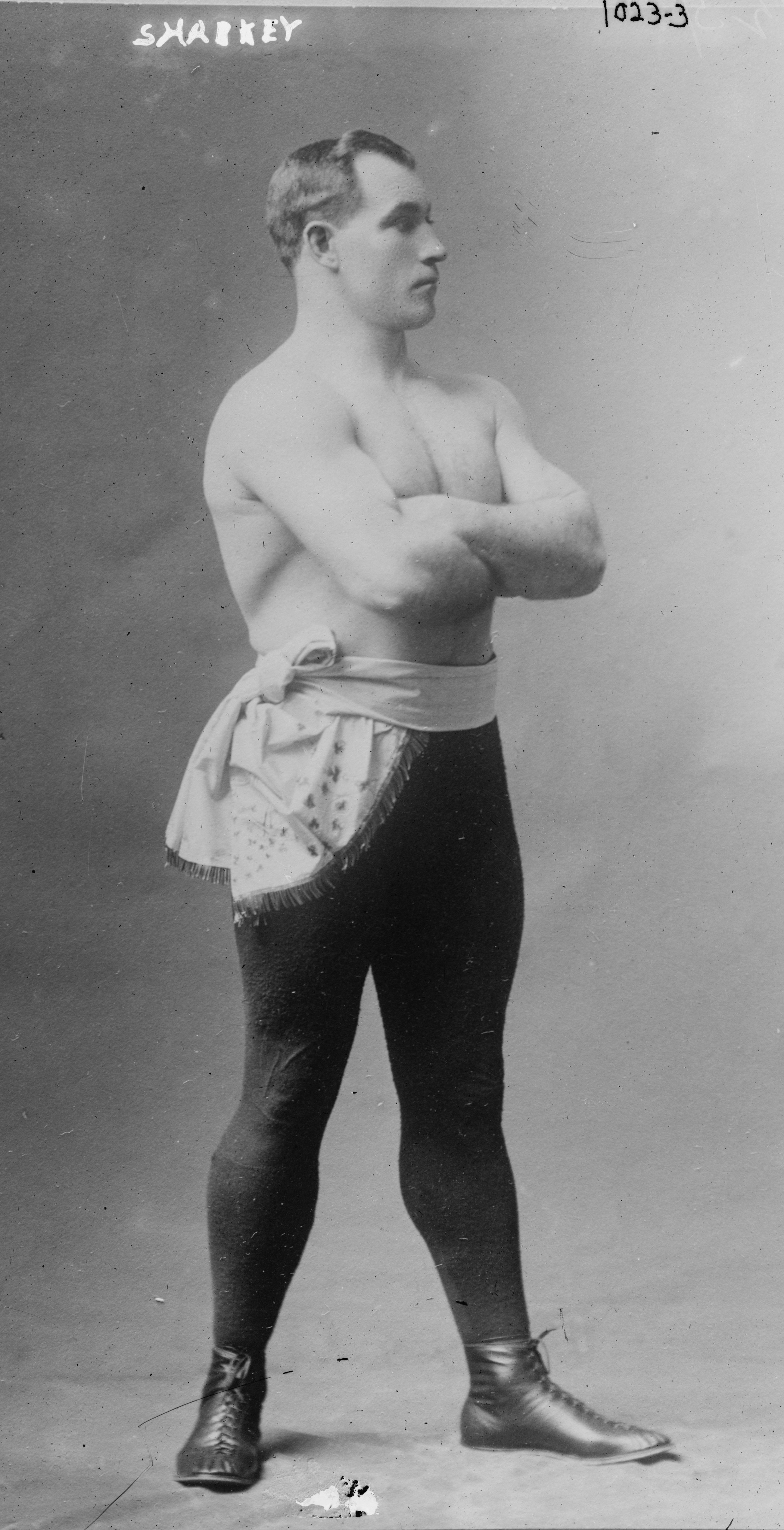 Tom Sharkey, an Irish-American boxer